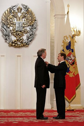 Dmitry Medvedev and Aleksander Potapov at State Prize of the Russian Federation awarding